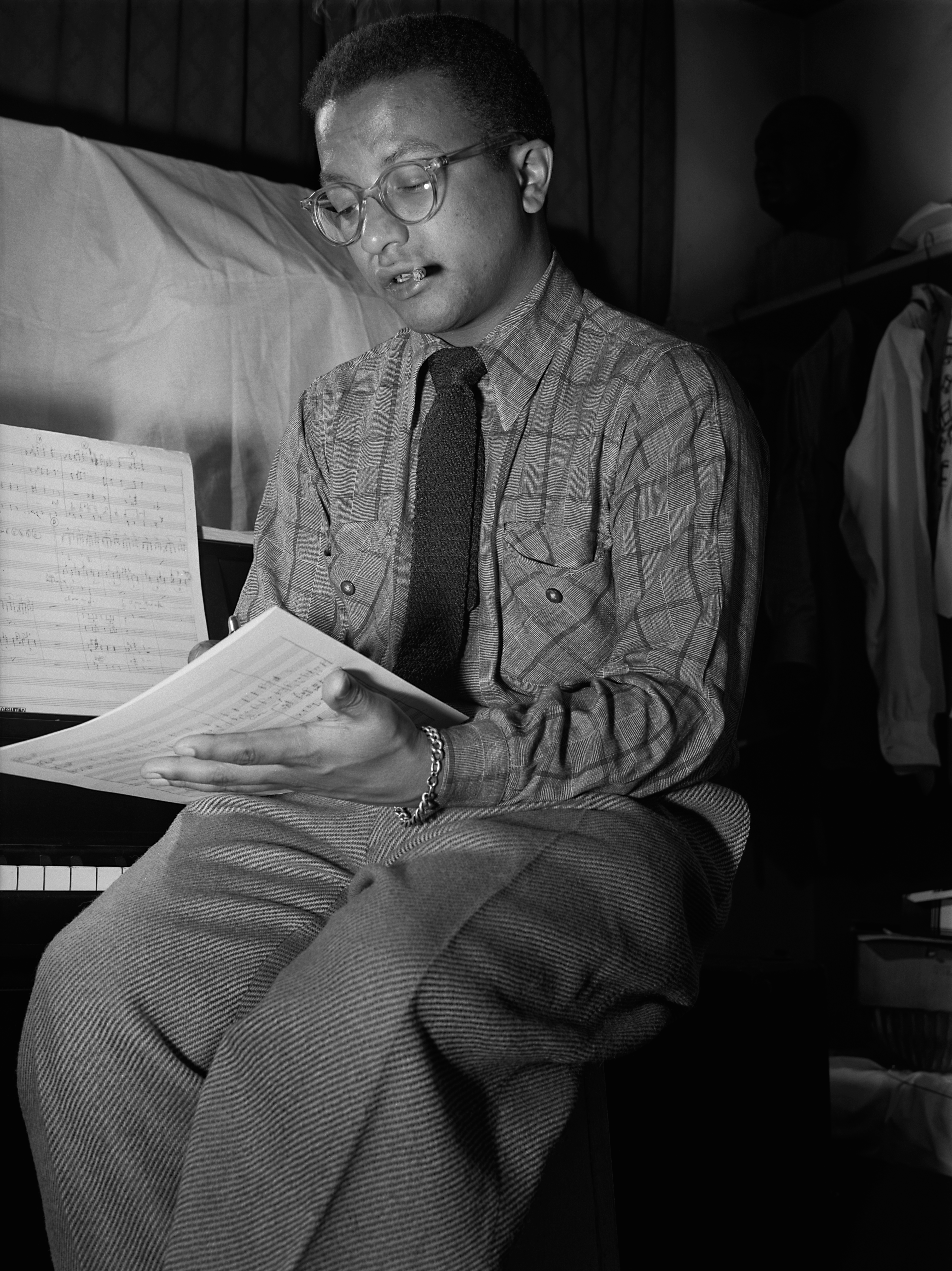 Billy Strayhorn, New York, N.Y., between 1946 and 1948. This image has been cropped and adjusted, roughly per the second of the Library of Congress' copies, as this improves the composition and presumably better reflects the correct skintone (it was common to slightly overexpose images of darker-skinned people to bring out more detail).